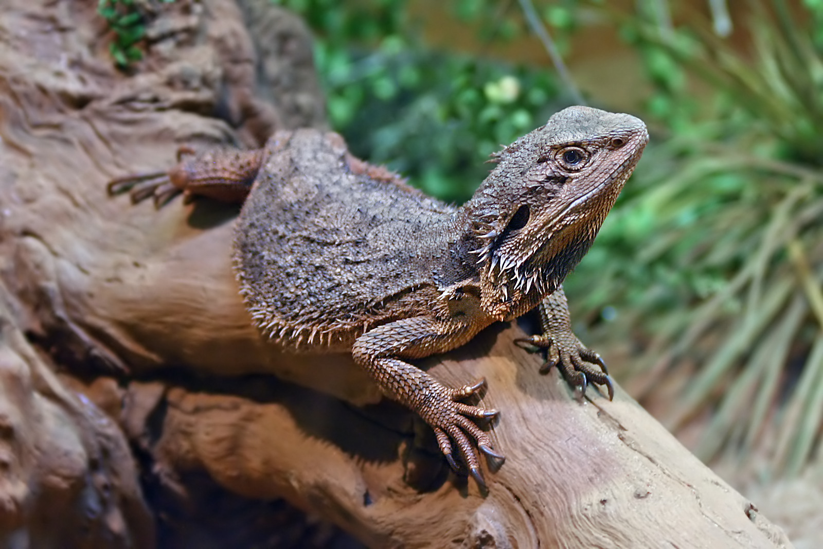 Eastern Bearded Dragon (Pogona barbata), Victoria, Australia.